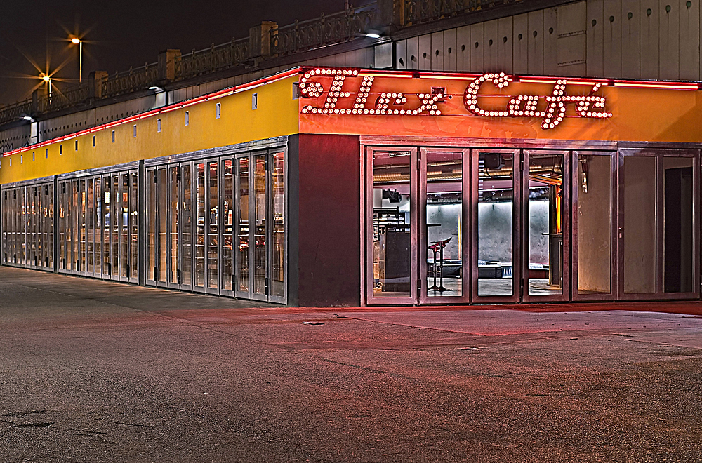 Flex-Cafe at Night, Vienna